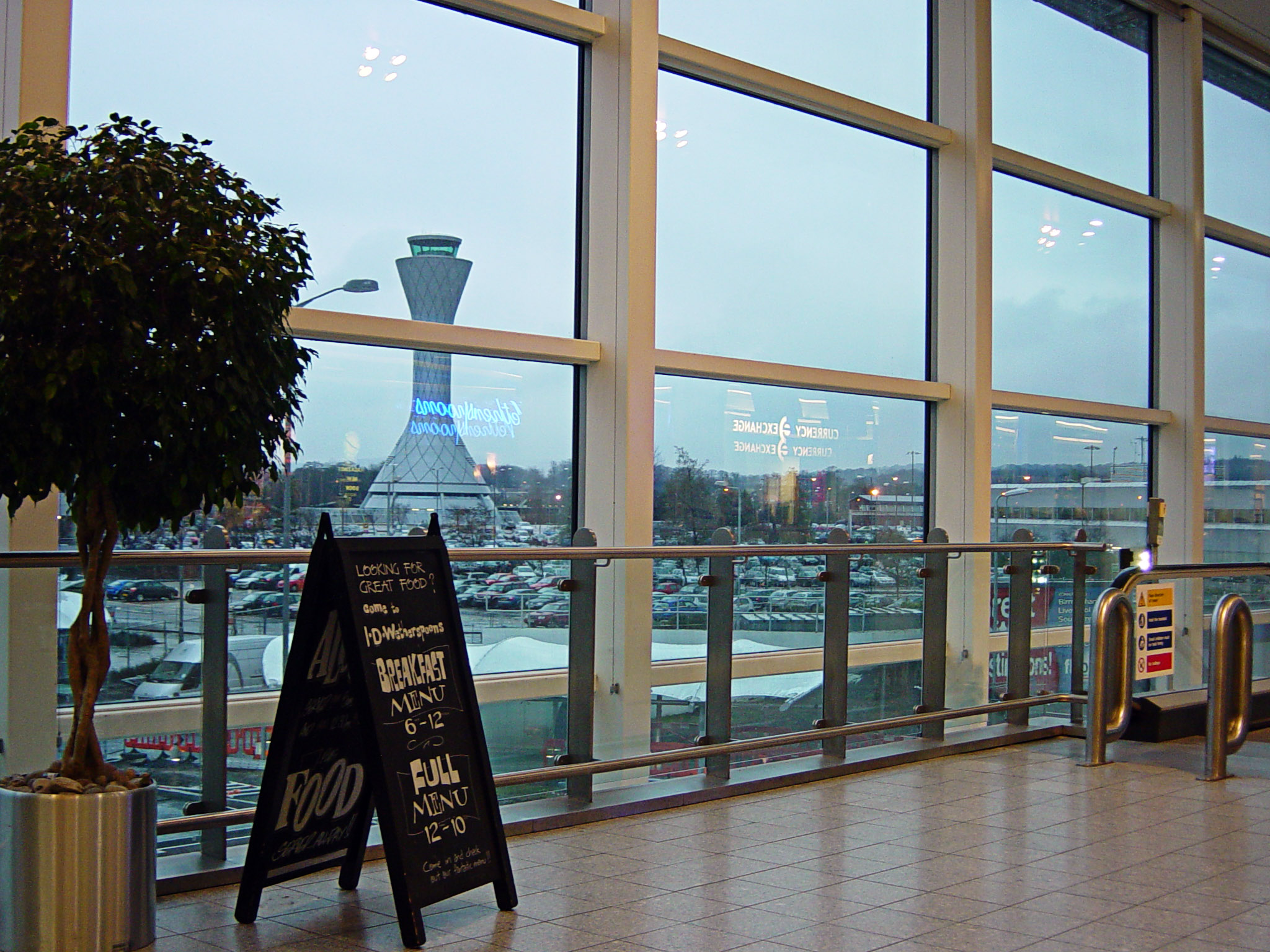 Photograph from Edinburgh Airport terminal building showing the control tower and surrounding area, taken by me on 16th March 2006. This photo was taken from the departure area, and you can see reflections of the row of shopping outlets which were behind me.